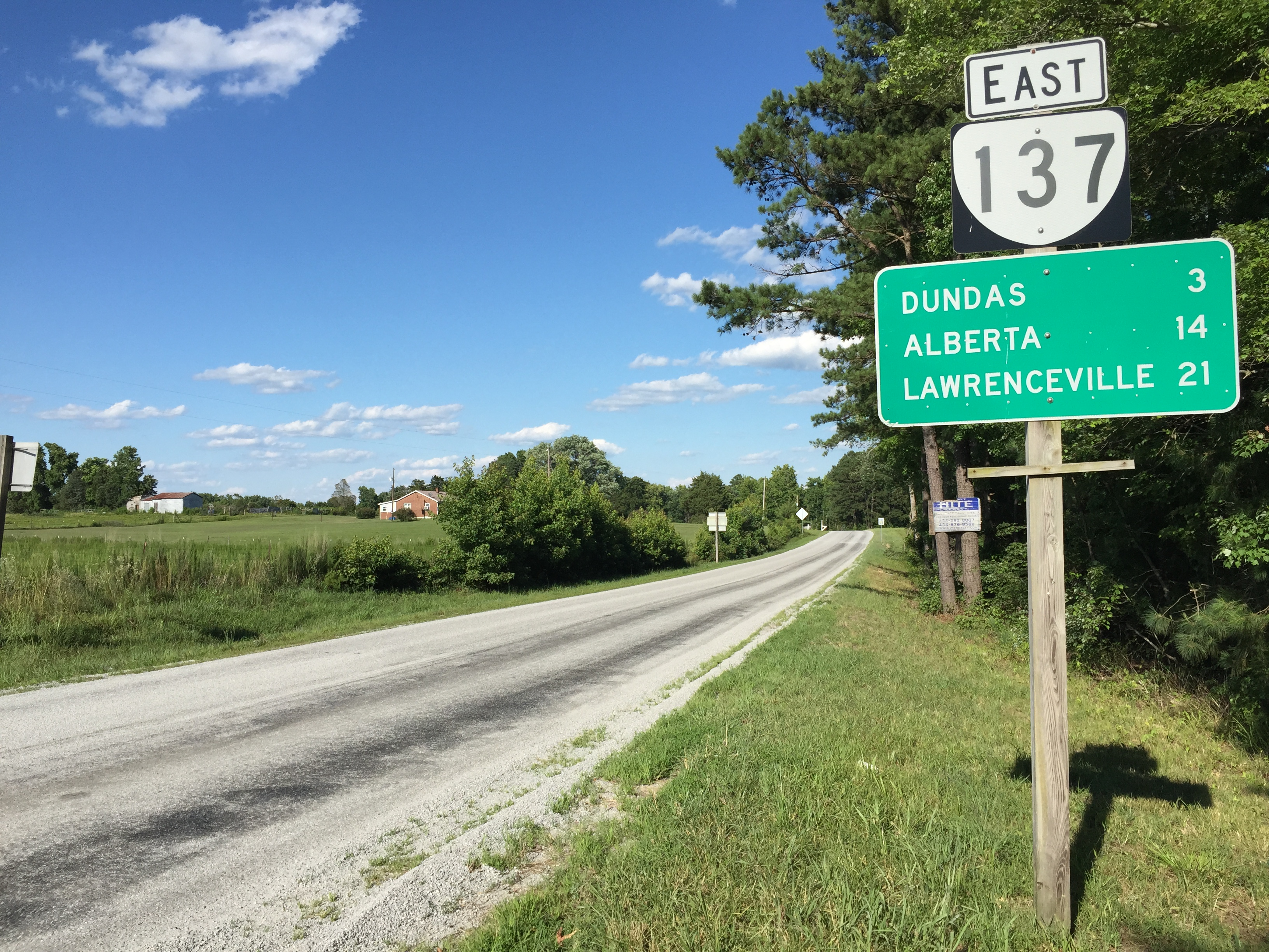 View east along Virginia State Route 137 (Dundas Road) at Virginia State Route 138 (Hill Road) in Bishops Corner, Lunenburg County, Virginia